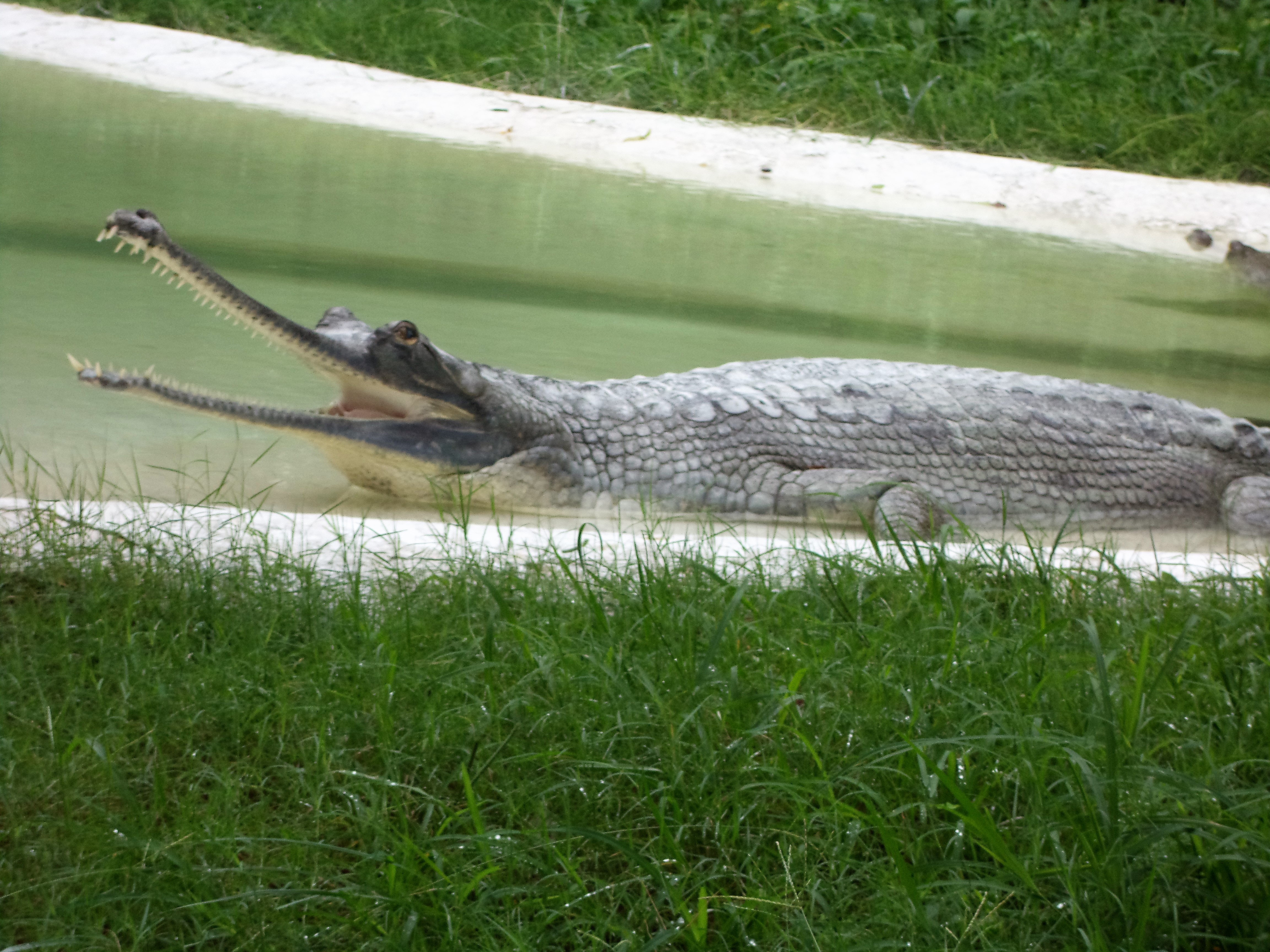 This image was taken form Chandigarh Haryana